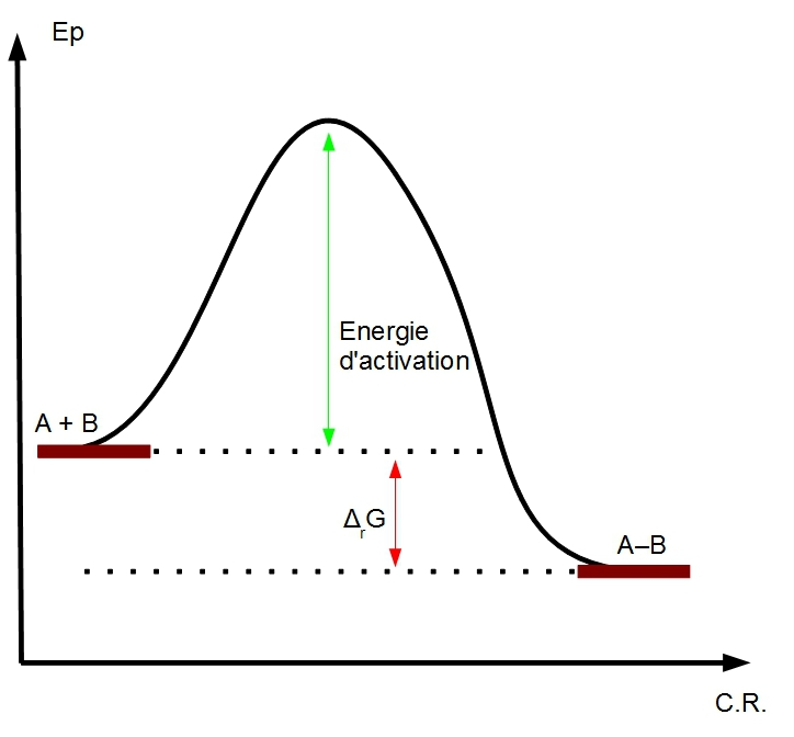 A diagram representing the energy variation during an elementary chemical reaction.